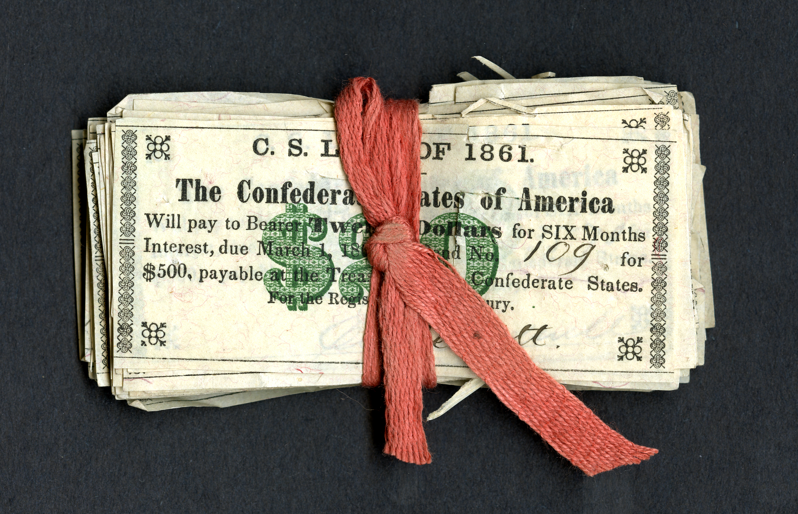 “Red tape” used to bind bundles of redeemed Civil War-era Confederacy bond coupons.